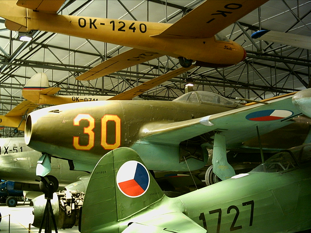 Yakovlev Yak-17 and glider Z-130 Kmotr (OK-1240), Kbely museum, Prague, Czech Republic